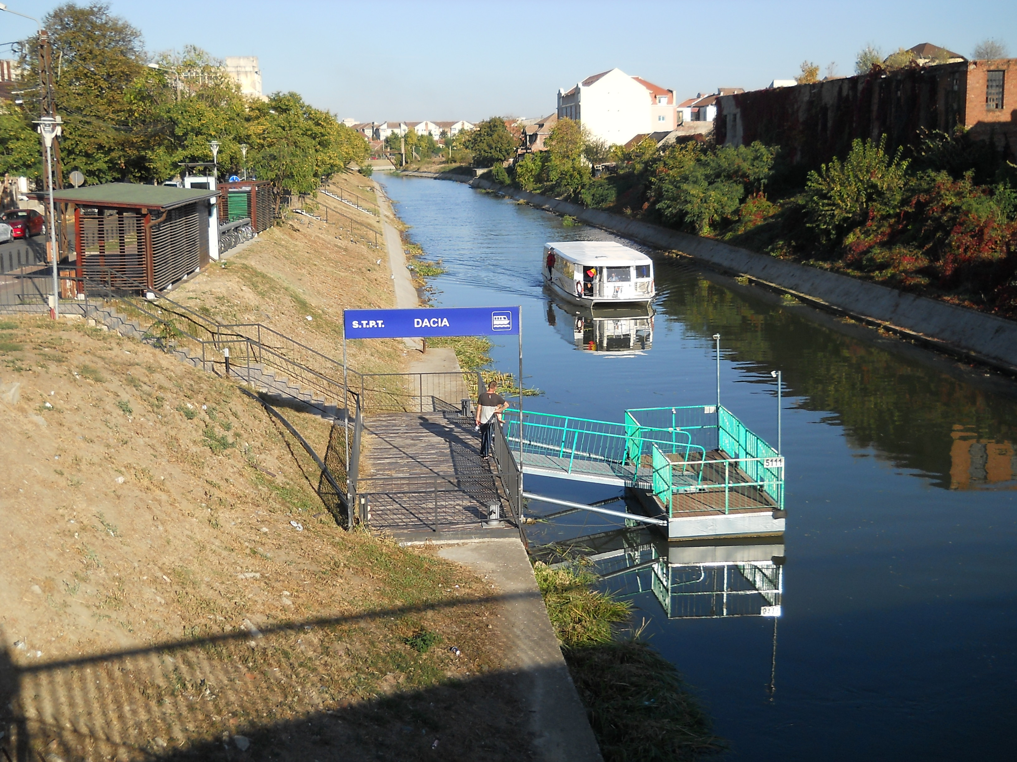 Un hidrobuz STPT apropiindu-se de stația Dacia.